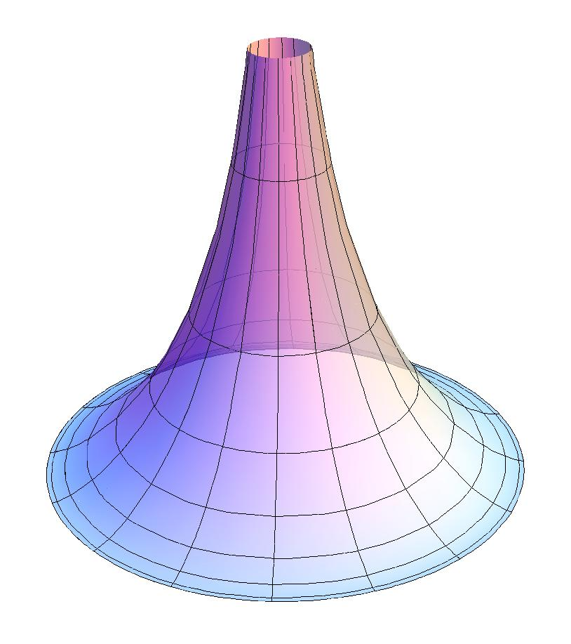 Pseudo sphere image. Rendered in Mathematica.